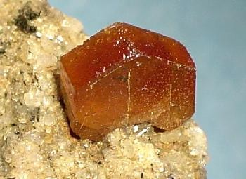 Bastnäsite-(Ce) Locality: Zagi Mountain (Zegi Mountain), Mulla Ghori, Khyber Agency, Federally Administered Tribal Areas (FATA), Pakistan (Locality at ) Size: 4.6 x 2.7 x 2.2 cm. A gemmy, 9 mm, honey-brown bastnaesite crystal set on matrix. This sharp crystal has symmetrical hexagonal form.